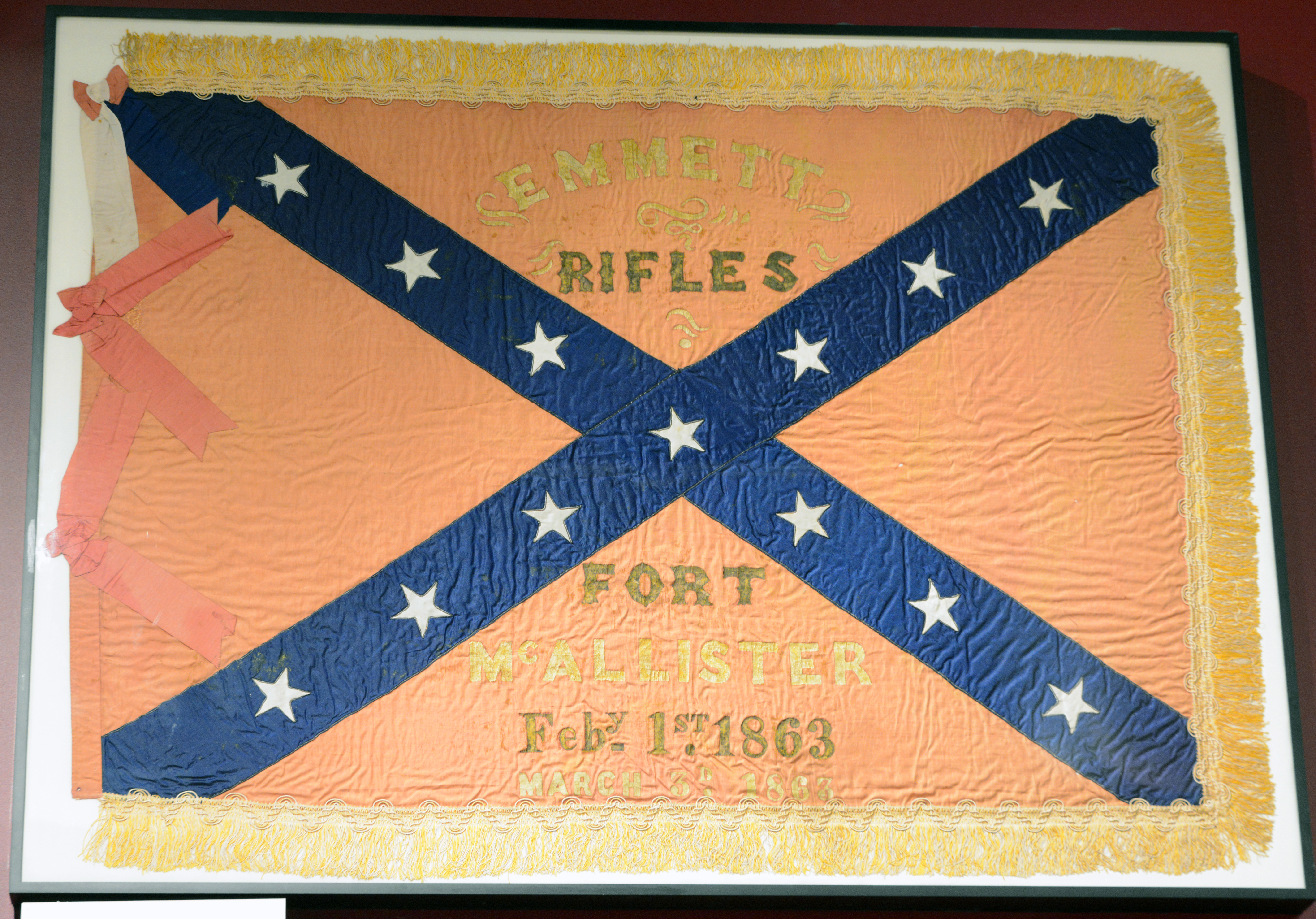 Confederate Battle Flag of the Emmett Rifles. The company briefly was part of the 1st (Olmstead´s) Georgia Infantry Regiment and later of the 22nd Georgia Heavy Artillery Battalion.